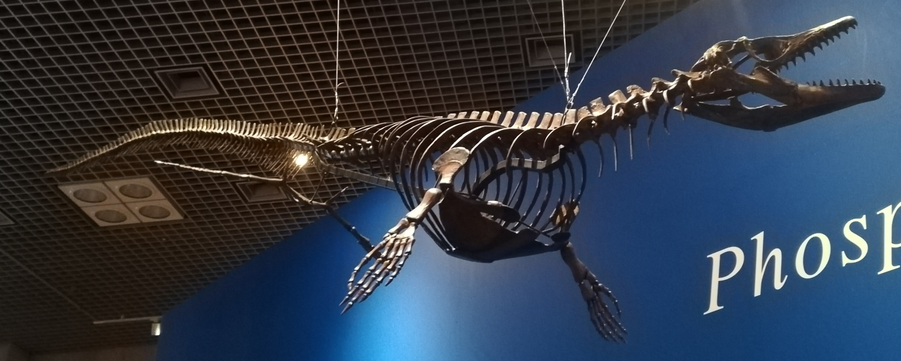 I took the picture at the limited exhibition event in National Museum of Nature and Science